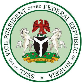 Seal of the Vice-President of Nigeria.